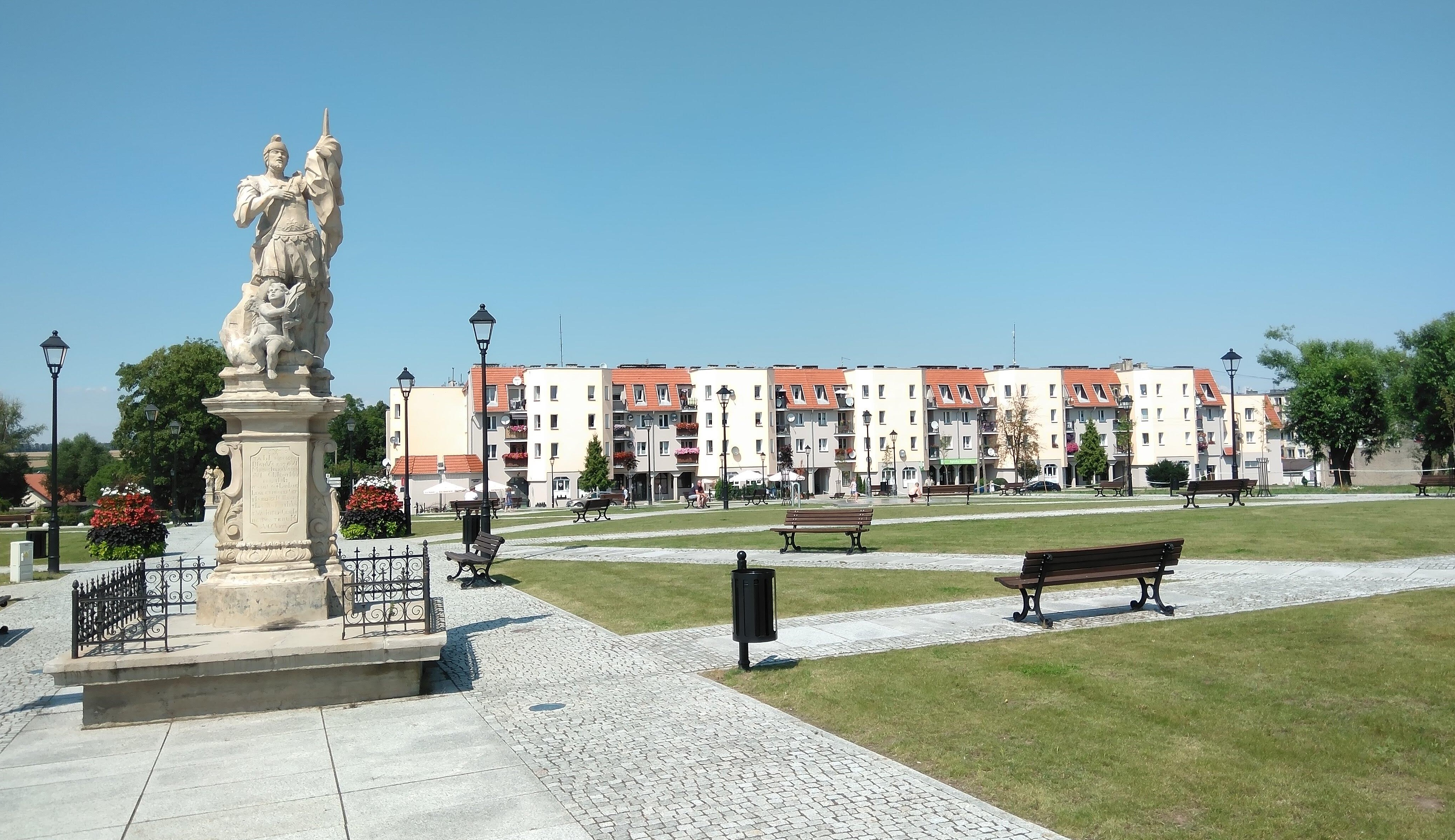 The Saint Florian statue (1734) and the Central Square in Kietrz/Katscher, Upper Silesia, Poland